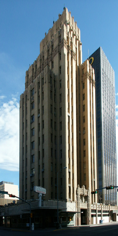 Bassett Tower, El Paso, Texas. Photo by camerafiend.